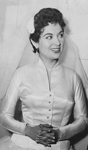 Virginia Luque-actriz